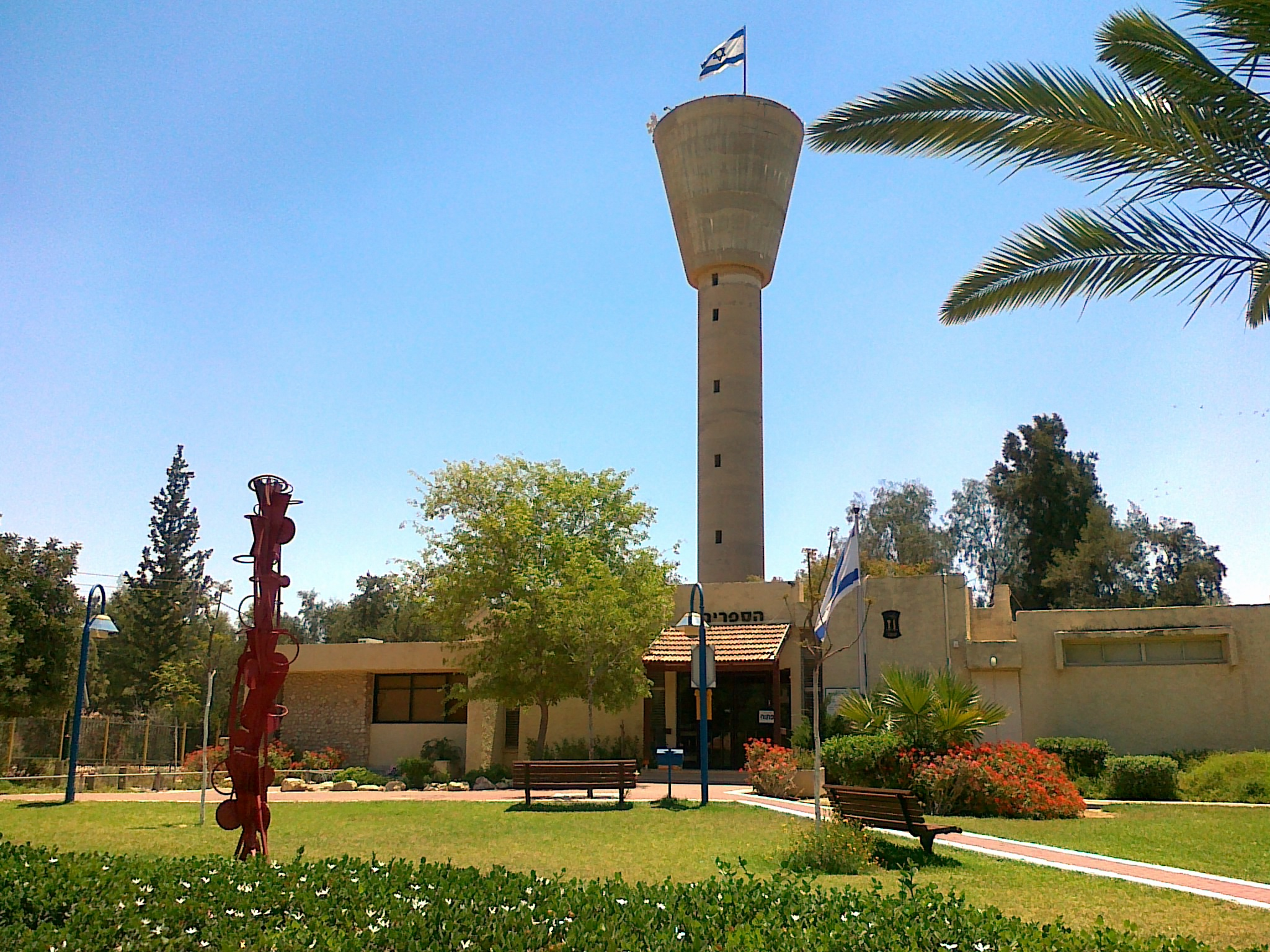 Omer,Israel, May 2012